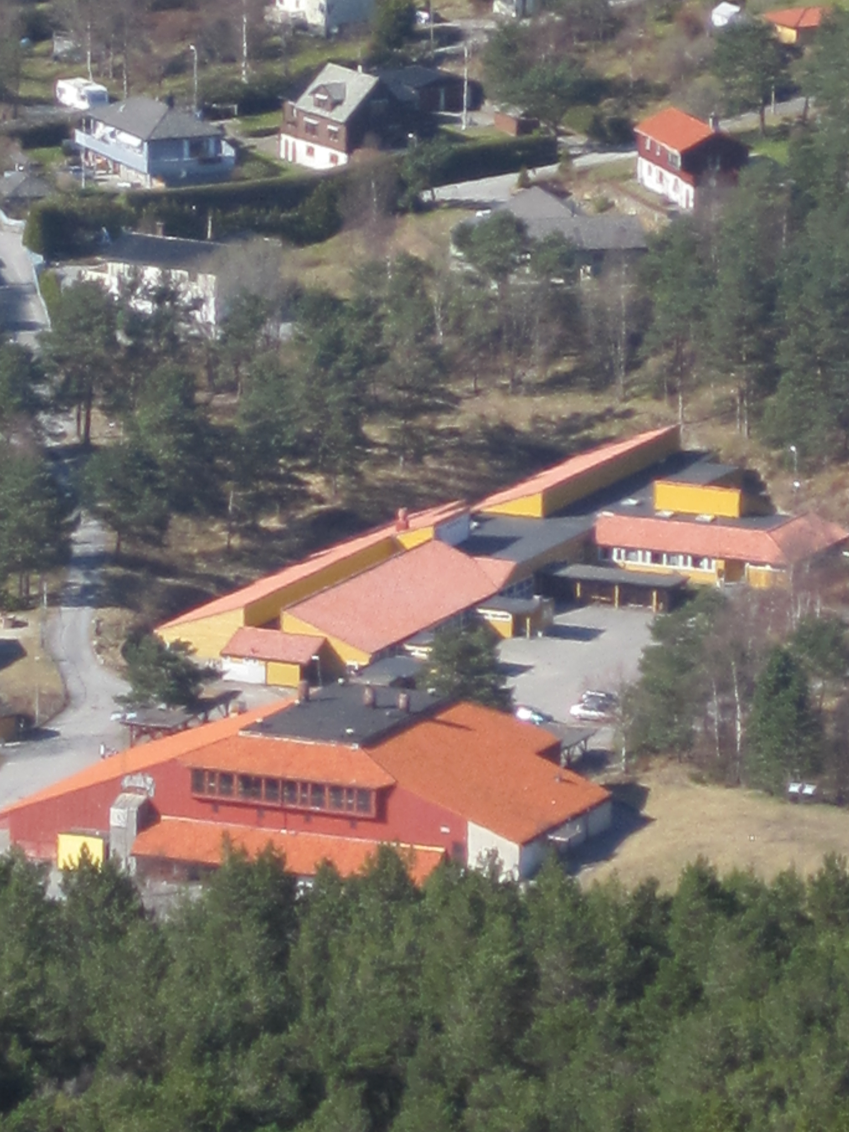 A photo showing Rolland Skole.